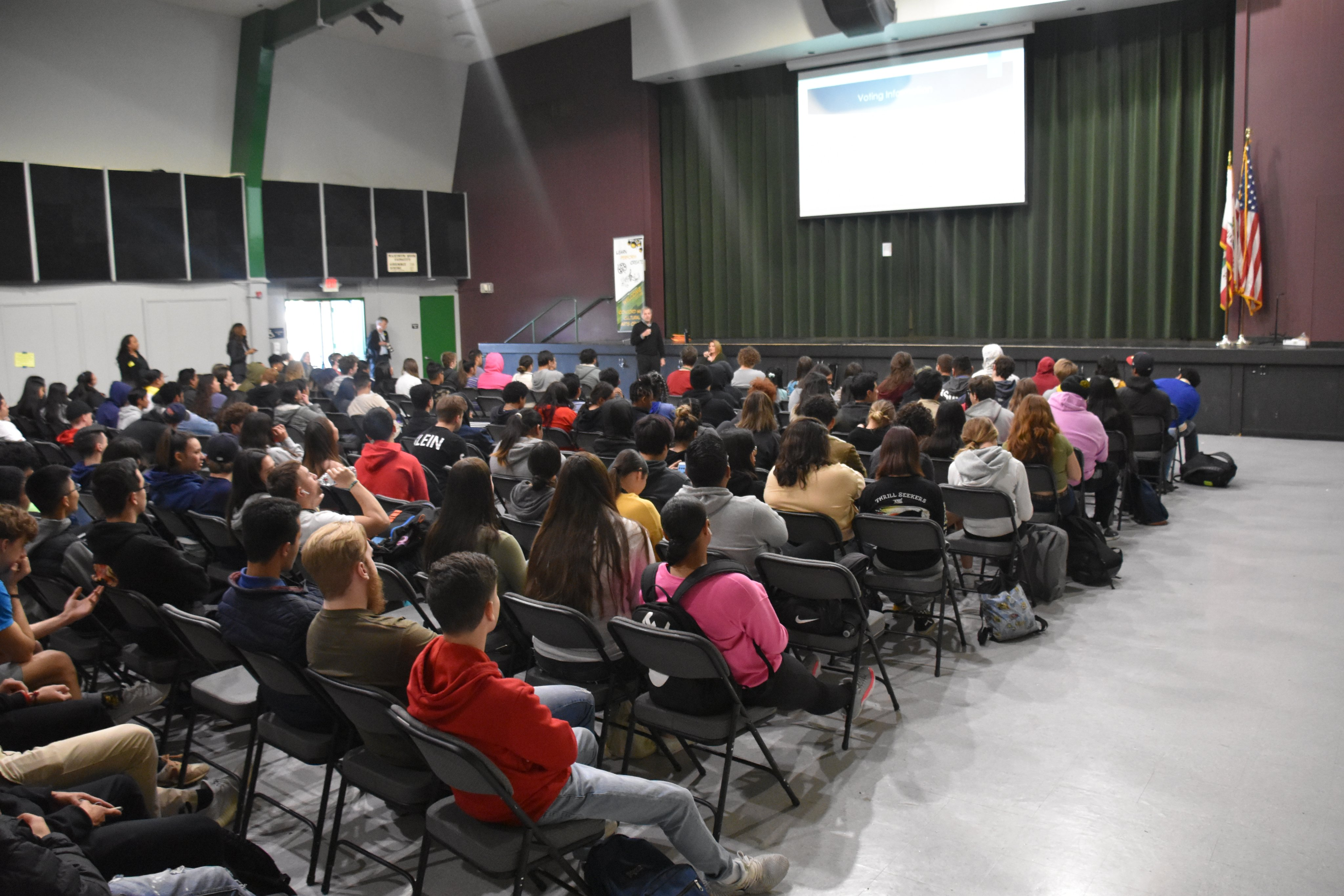 Thank you to Ms. Herring, school administration, and the seniors at @concord_high for inviting me to campus to host a student town hall! We continue to meet with students from around #CA11 to hear about the issues that confront our next generation.